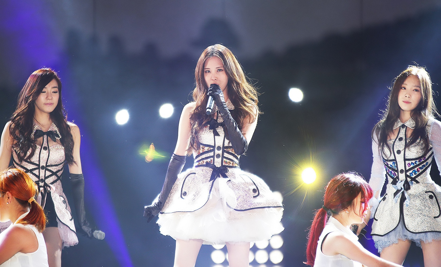 TaeTiSeo at Suncheon Bay Garden Expo International K-POP Concert August 31, 2013.